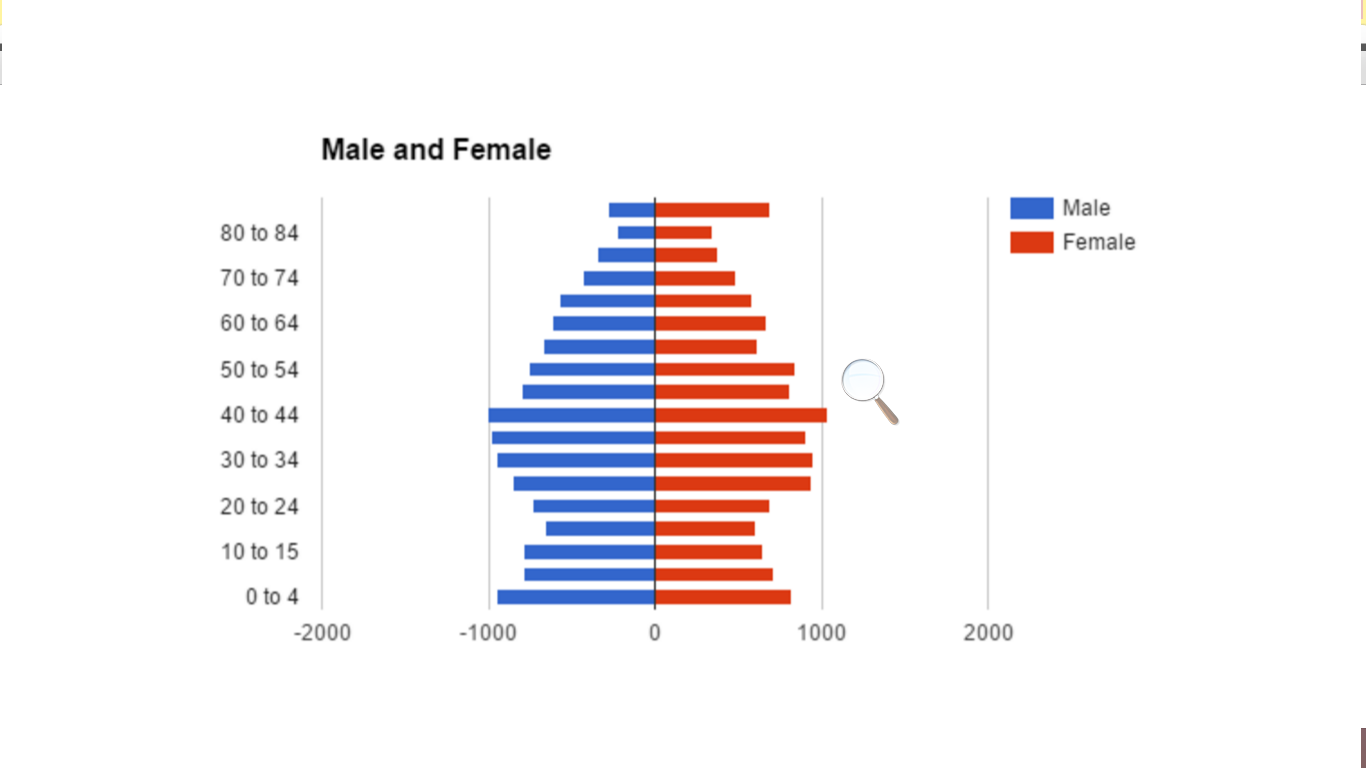 Data Scource: ABS